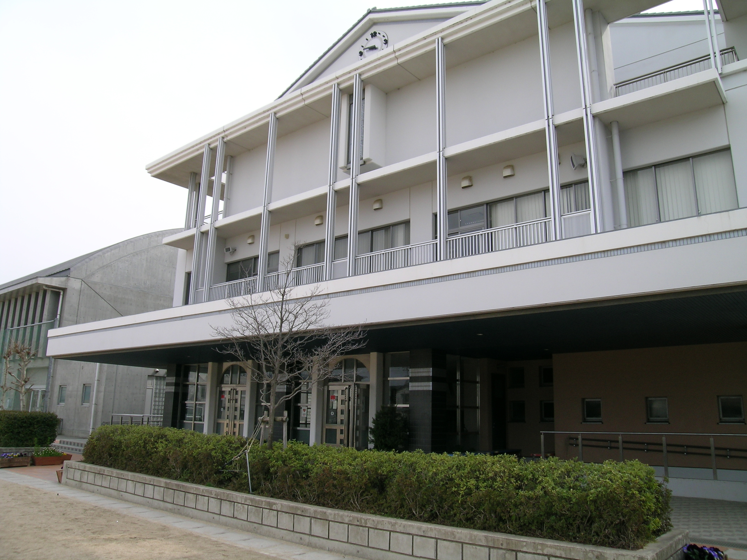 Kamojima elementary school in Yoshinogawa, Tokushima, Japan